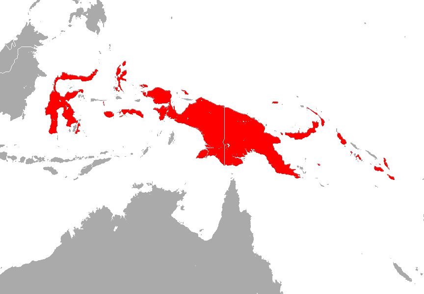 Dark Sheath-tailed Bat (Mosia nigrescens) range